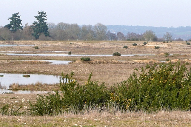 Crookham Common The former airfield has reverted to heathland and common use. The north-eastern corner of Crookham Common has seen substantial gravel extraction, has seen here. I am standing by an unseen fence. The fence in the middle distance is along the road just in the next square.